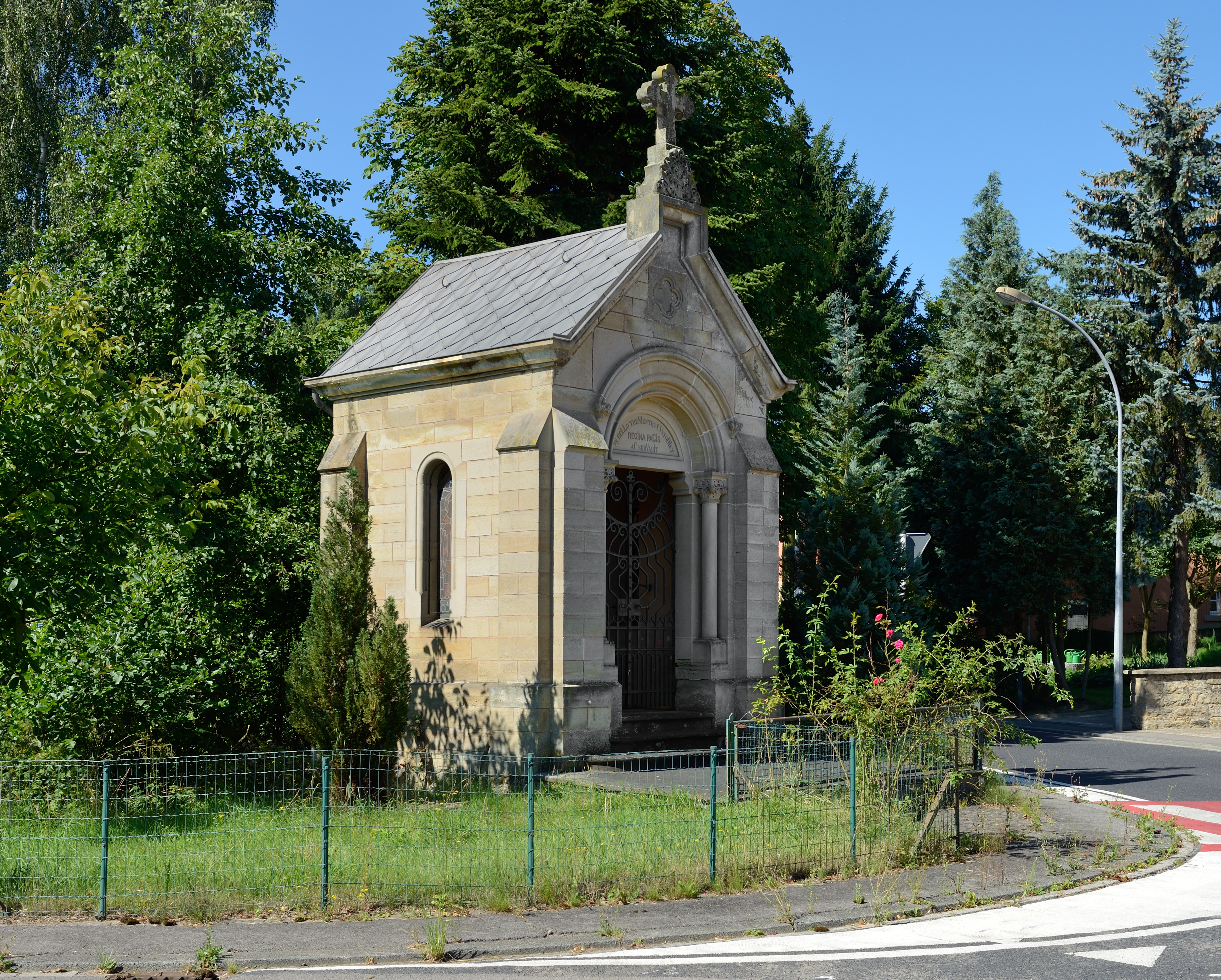 Chapel A Ludes in Beidweiler, Luxembourg.